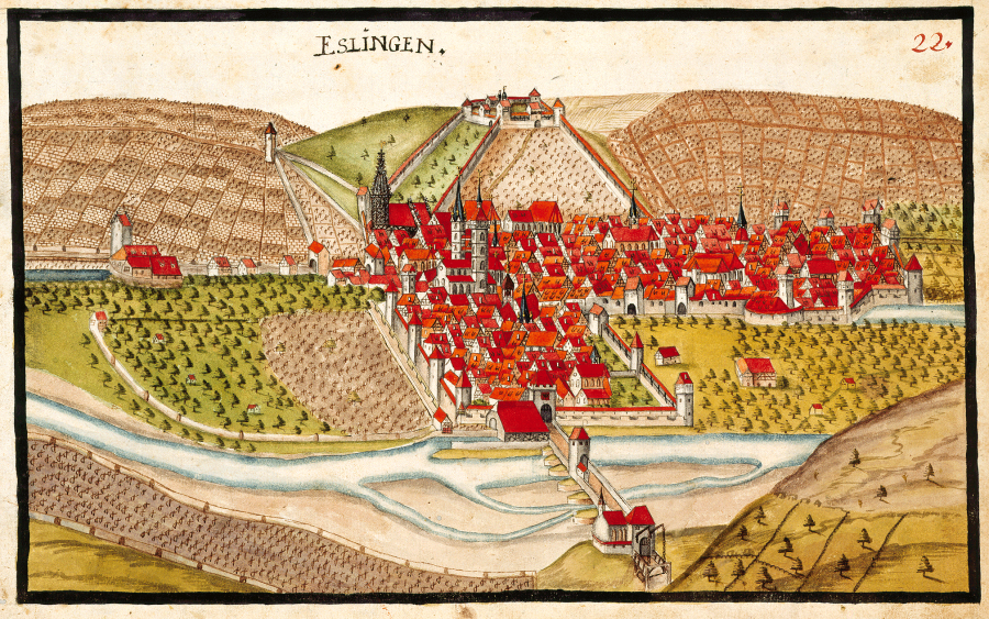 View of Esslingen am Neckar from the forest register books created by Andreas Kieser